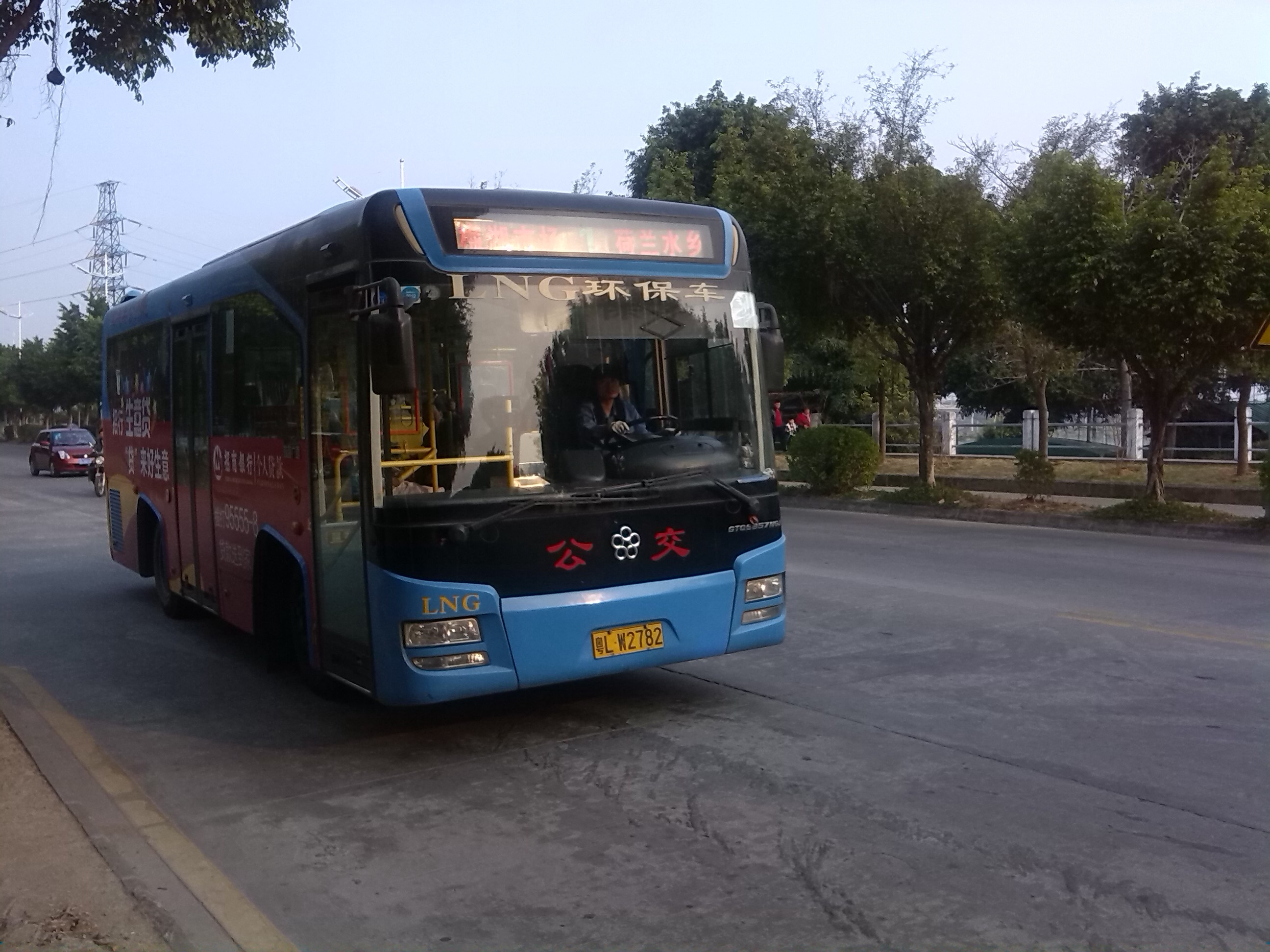 A Granton GTQ6857NGJ bus which is powered by liquid natural gas and enlisting on Huizhou City Bus Cooperation Route 1. The plate number of this bus is "粤L•W2782" . The photo was taken at the bus stop of Jinshan Bridge(North). The bus is now out of service.